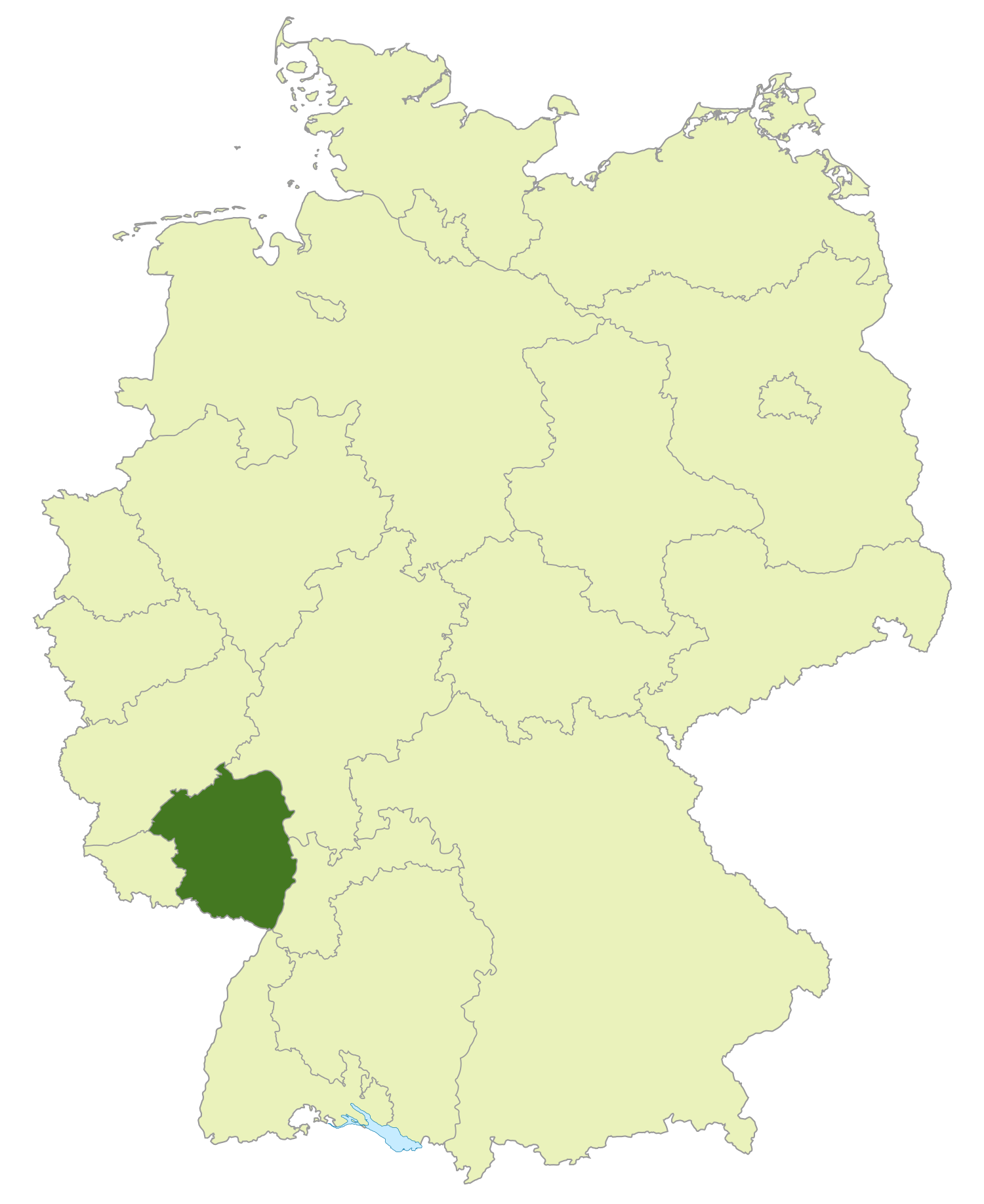 Map of regional soccer association Südwest, Germany